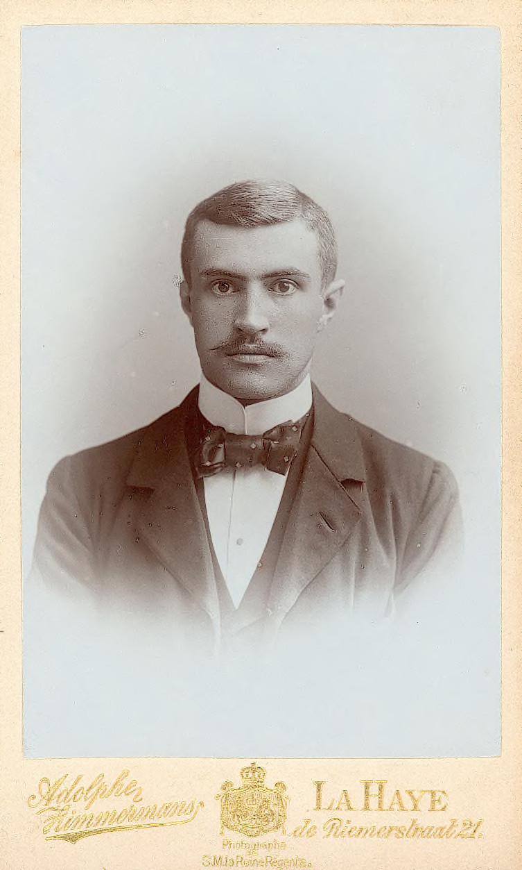 Photograph of Herman Theodoor Colenbrander (1871-1945). From: Zeeuws Archief, Zeeuws Genootschap, Zelandia Illustrata, deel IV, nr 1047